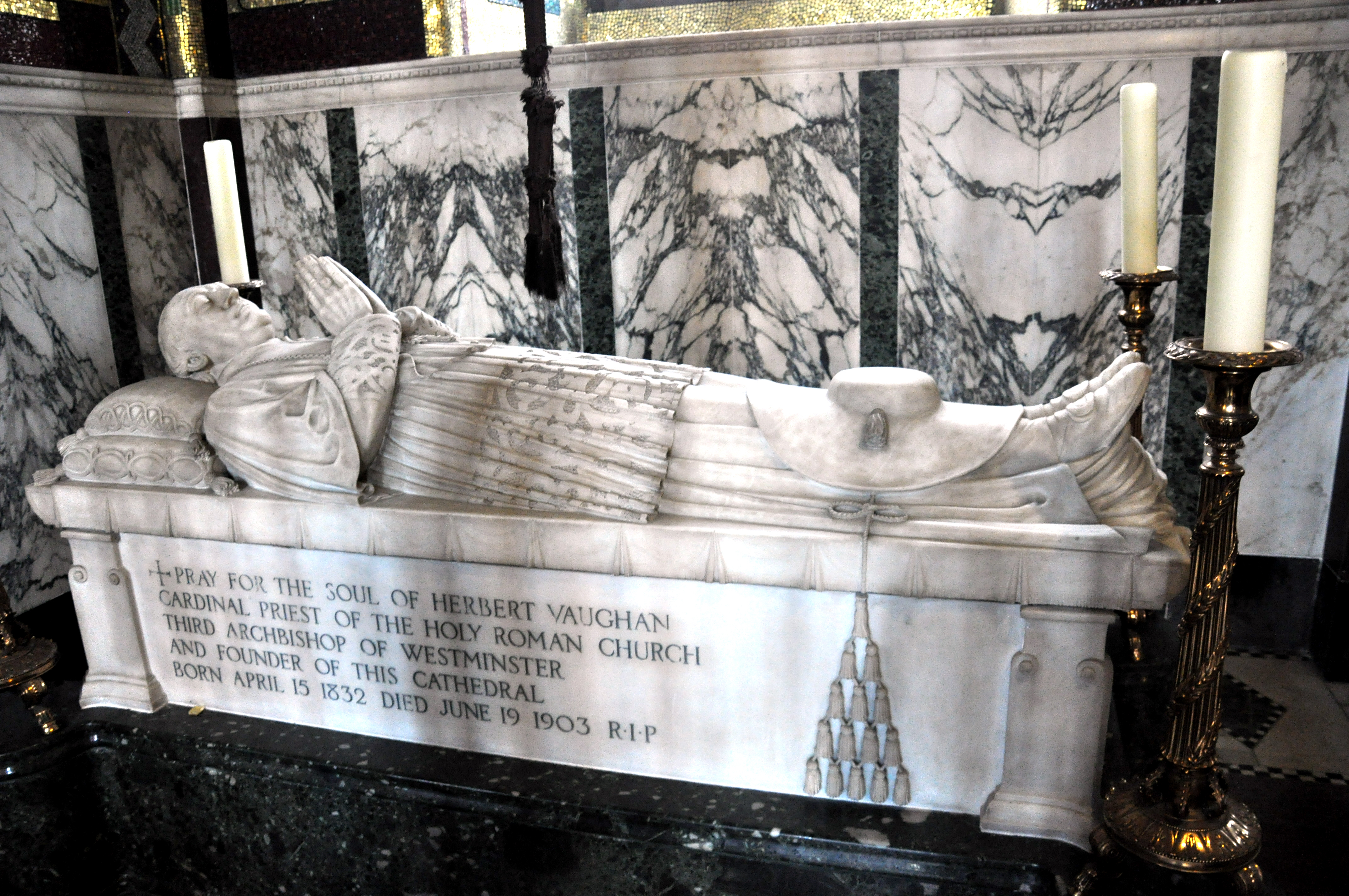 London, Westminster Cathedral, Tomb of Herbert Cardinal Vaughan